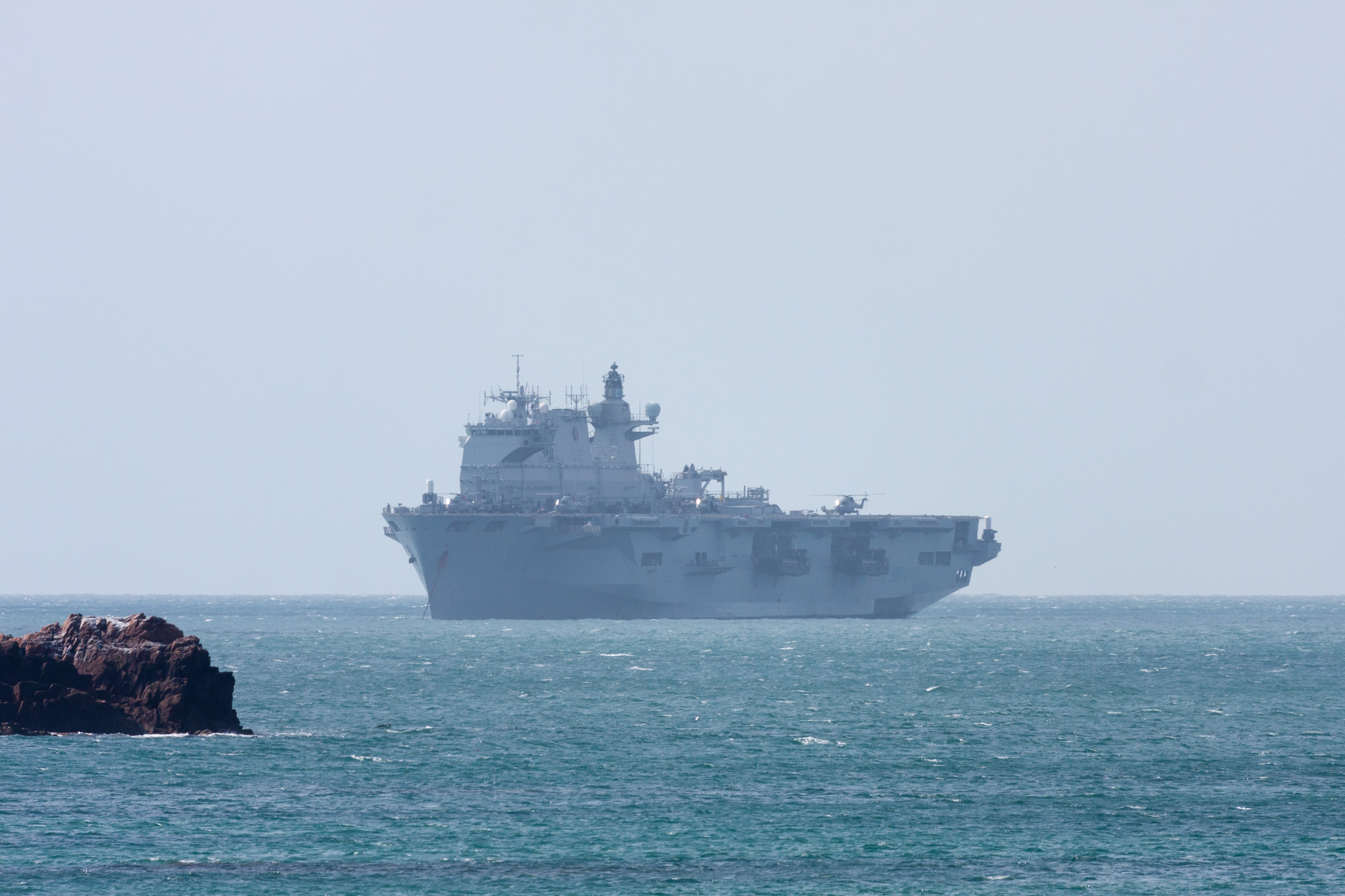 HMS Ocean anchored off St. Helier during the Jersey International Air Display 2009.